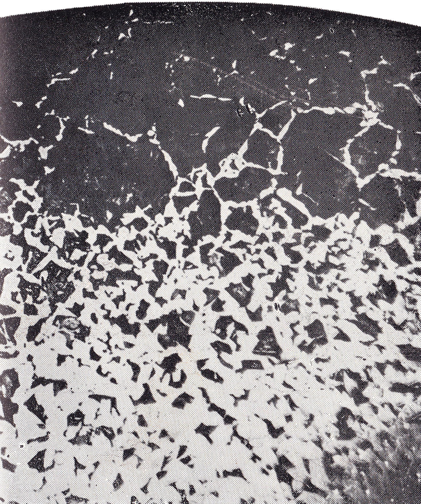 A micrograph of a section of carburized steel. The magnification is 200x. According to the scouse of this photograph, the original steel is a low carbon steel including 0.2% C, 0.24% Si, 0.52% Mn, 0.46% Ni, and 0.17%Cr. The black portions of the photograph is pearlite that was made by carburizing. The white portions are ferrite. Being exposed to the mixture of 70% charcoal and 30% barium carbonate, the steel was kept at 930 degrees C, then was cooled in furnace.